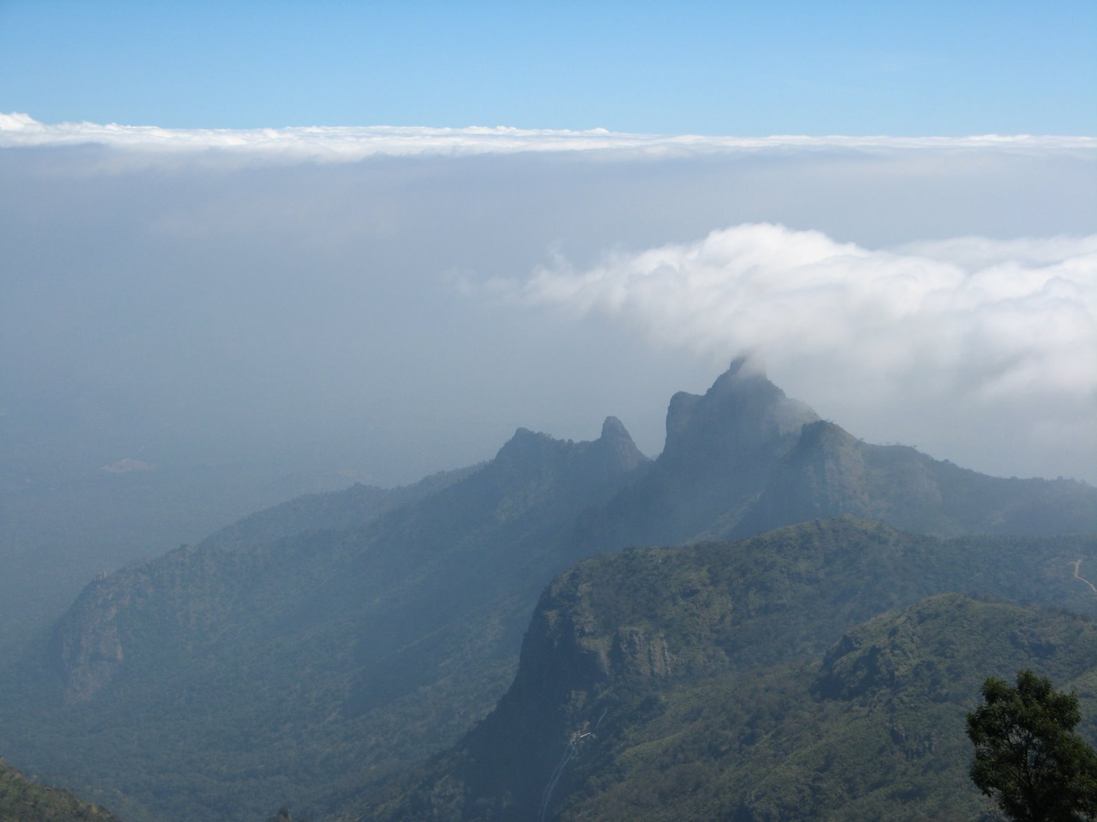 Rangasamy Peak (covered by clouds) as seen from Kodanad. Did you notice the water falls?